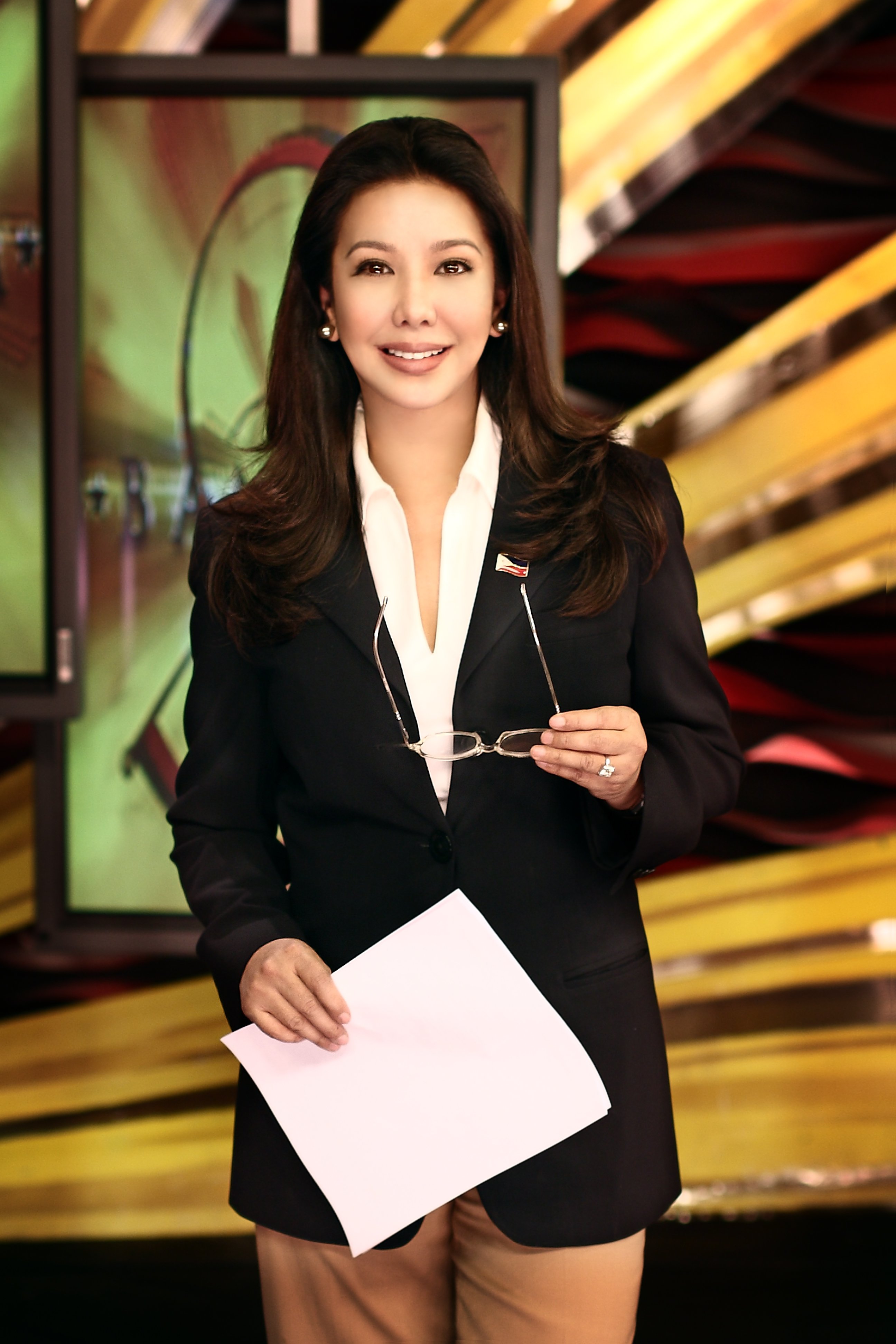 Photo of Korina Sanchez